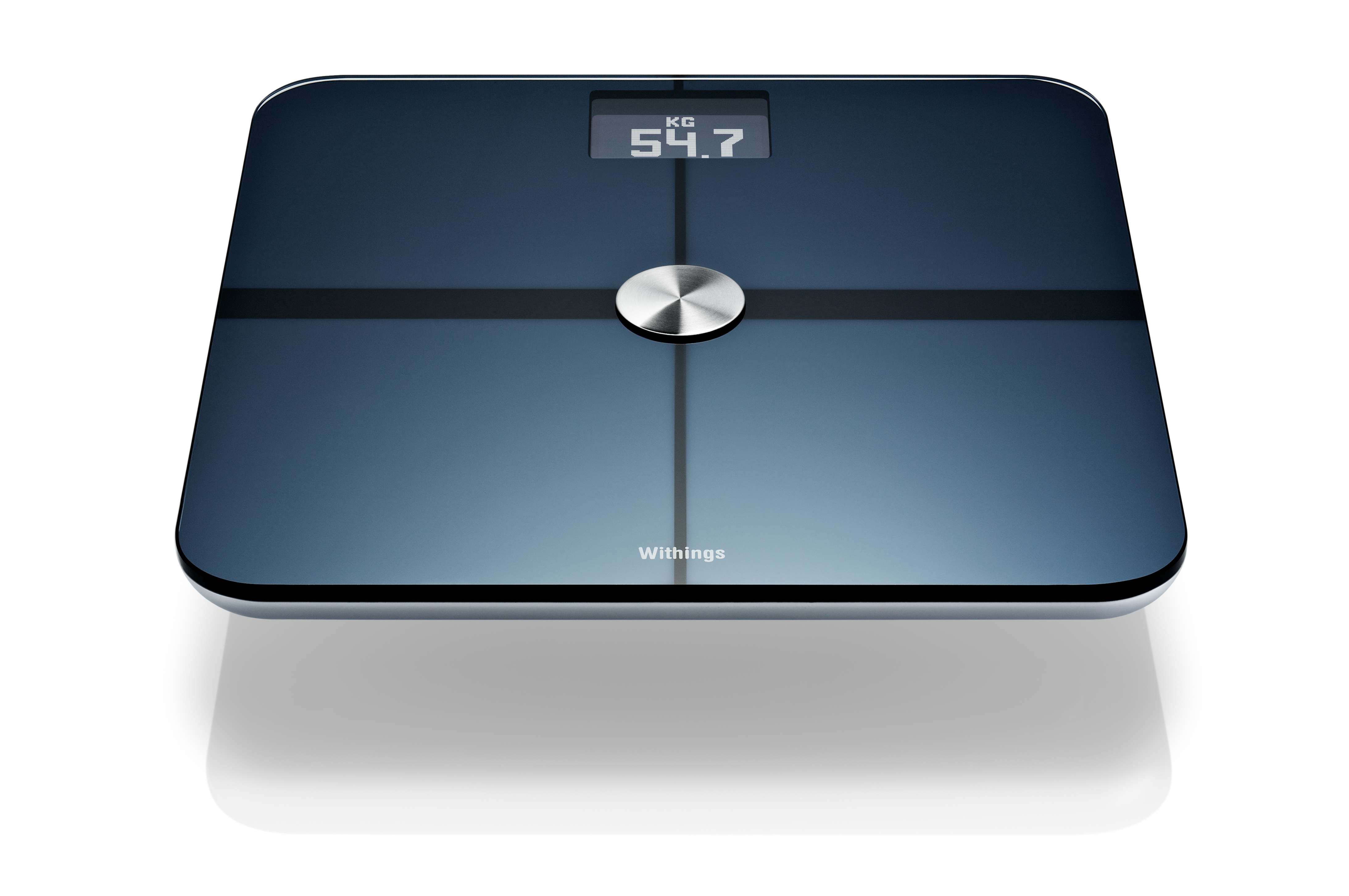 The WiFi Withings Bodyscale